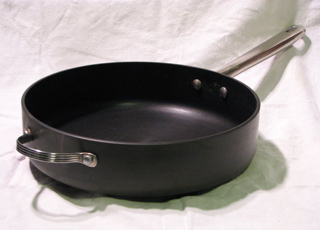 Anodized aluminum saute pan. Circulon pro brand, 5-quart.